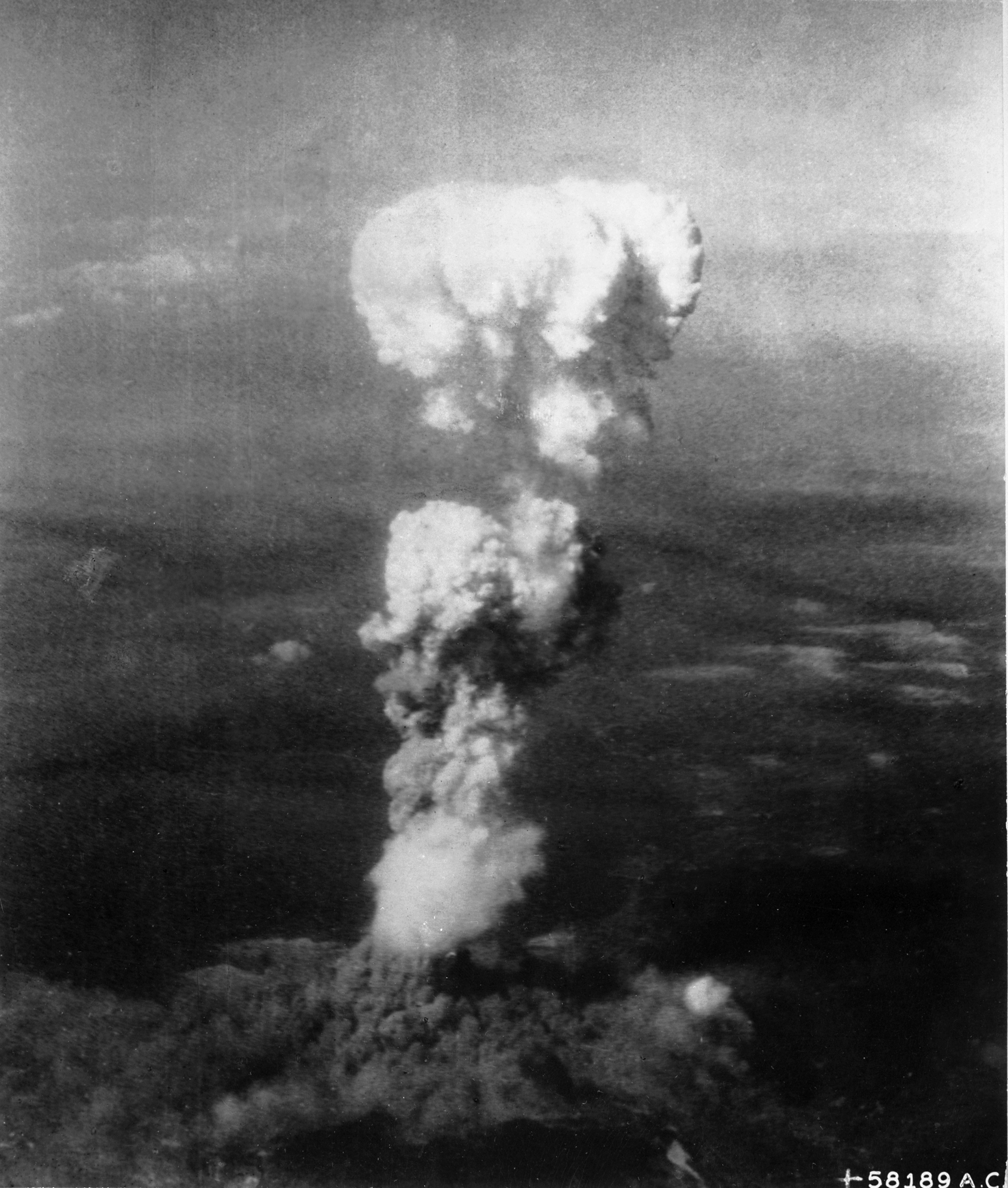 At the time this photo was made, smoke billowed 20,000 feet above Hiroshima while smoke from the burst of the first atomic bomb had spread over 10,000 feet on the target at the base of the rising column. Six planes of the 509th Composite Group, participated in this mission; one to carry the bomb Enola Gay, one to take scientific measurements of the blast The Great Artiste, the third to take photographs Necessary Evil the others flew approximately an hour ahead to act as weather scouts, 08/06/1945. Bad weather would disqualify a target as the scientists insisted on a visual delivery, the primary target was Hiroshima, secondary was Kokura, and tertiary was Nagasaki.